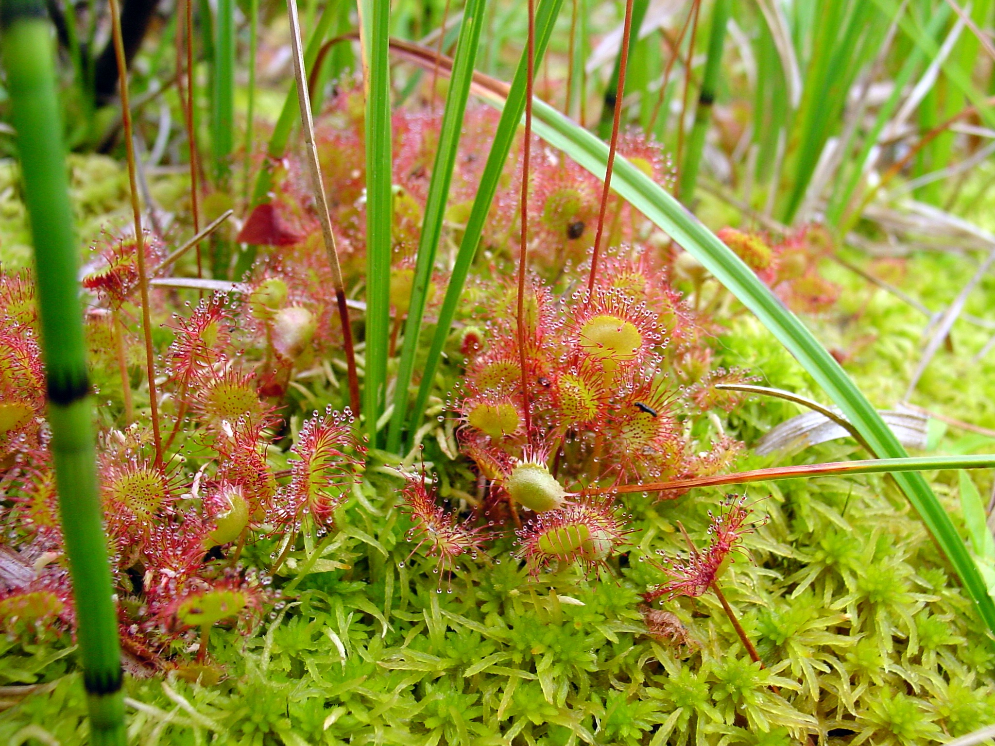 Description: Drosera rotundifolia growing in sphagnum moss with sedges and Equisetum in Mt. Hood National Forest Picture taken by: Noah Elhardt